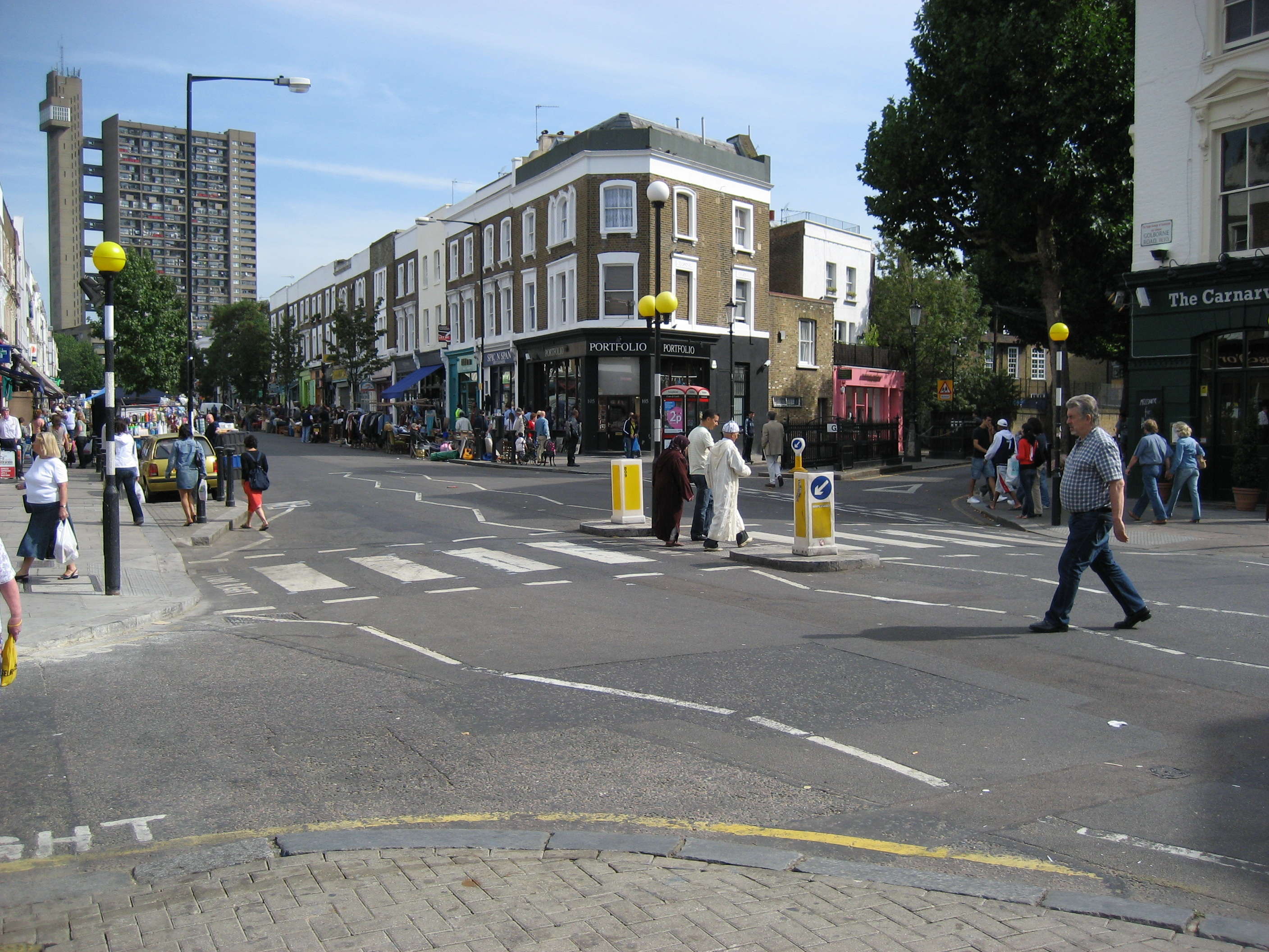 View of Golborne Road (London W10, United Kingdom) looking North-East towards Trellick Tower